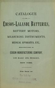 Catalogue of Edison-Lalande batteries, battery motors, measuring instruments, medical apparatus, etc. Published 1910 by Edison Manufacturing Company in New York .